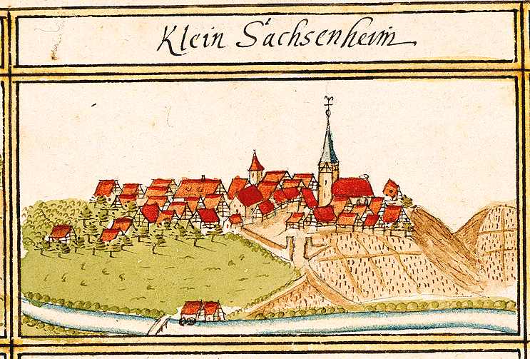 View of Kleinsachsenheim, Sachsenheim, from the forest register books created by Andreas Kieser